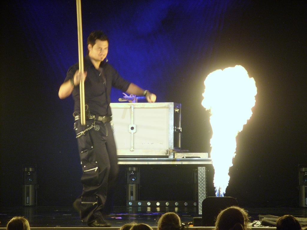 Illusionist Christian Farla performs Bo Staff